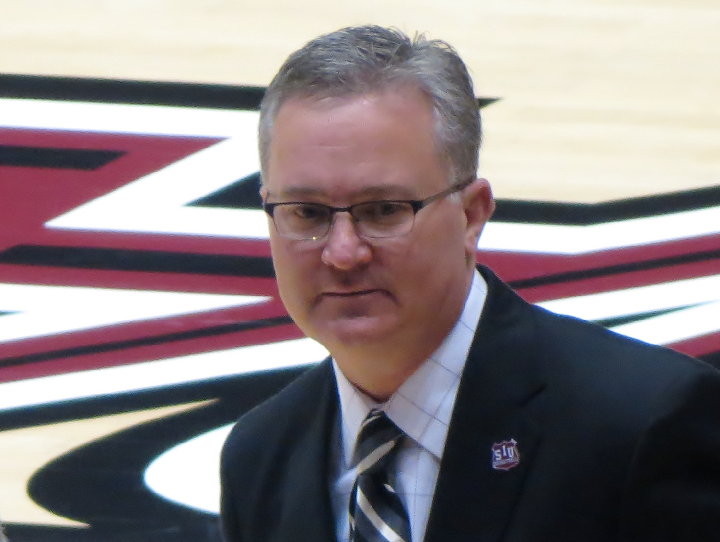 Southern Illinois men's basketball coach Barry Hinson prior to a December 2013 game against SIU Edwardsville.